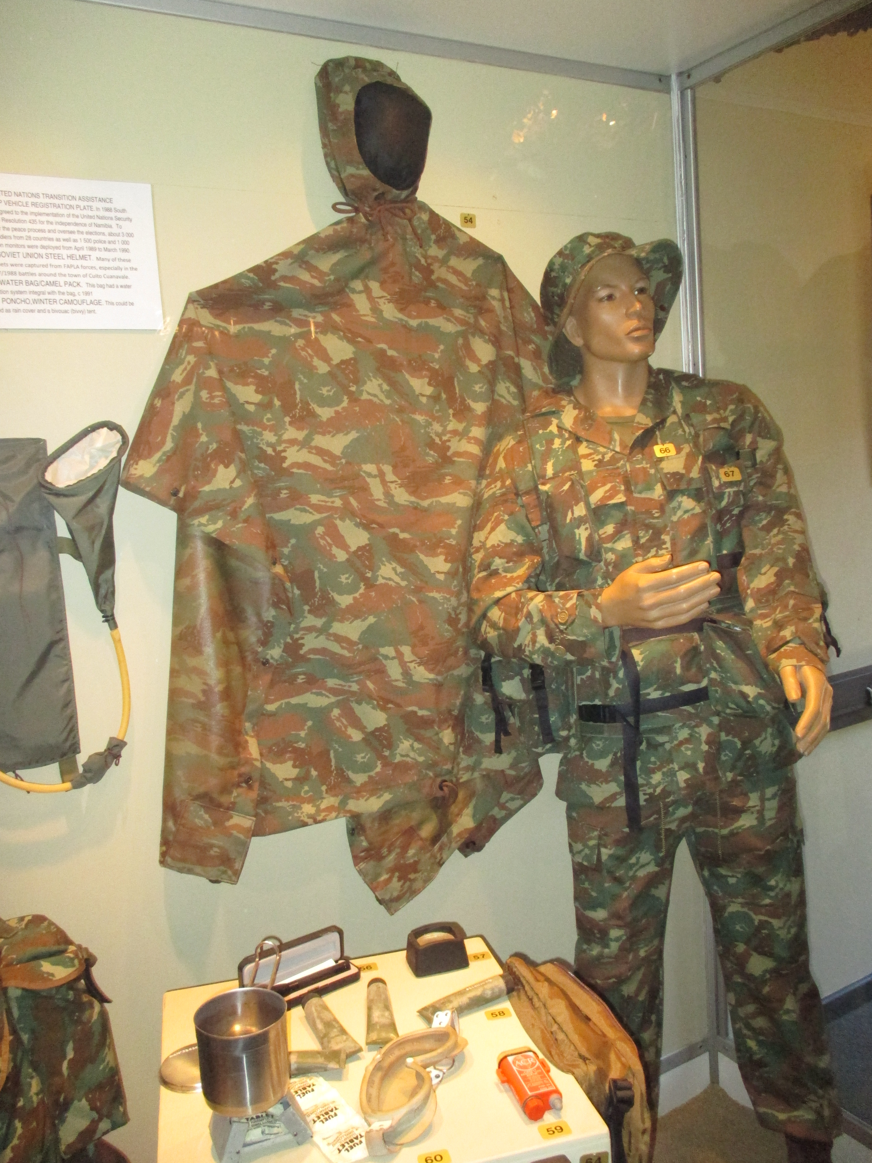 A 32 Battalion display at the South African National Museum of Military History, Johannesburg.